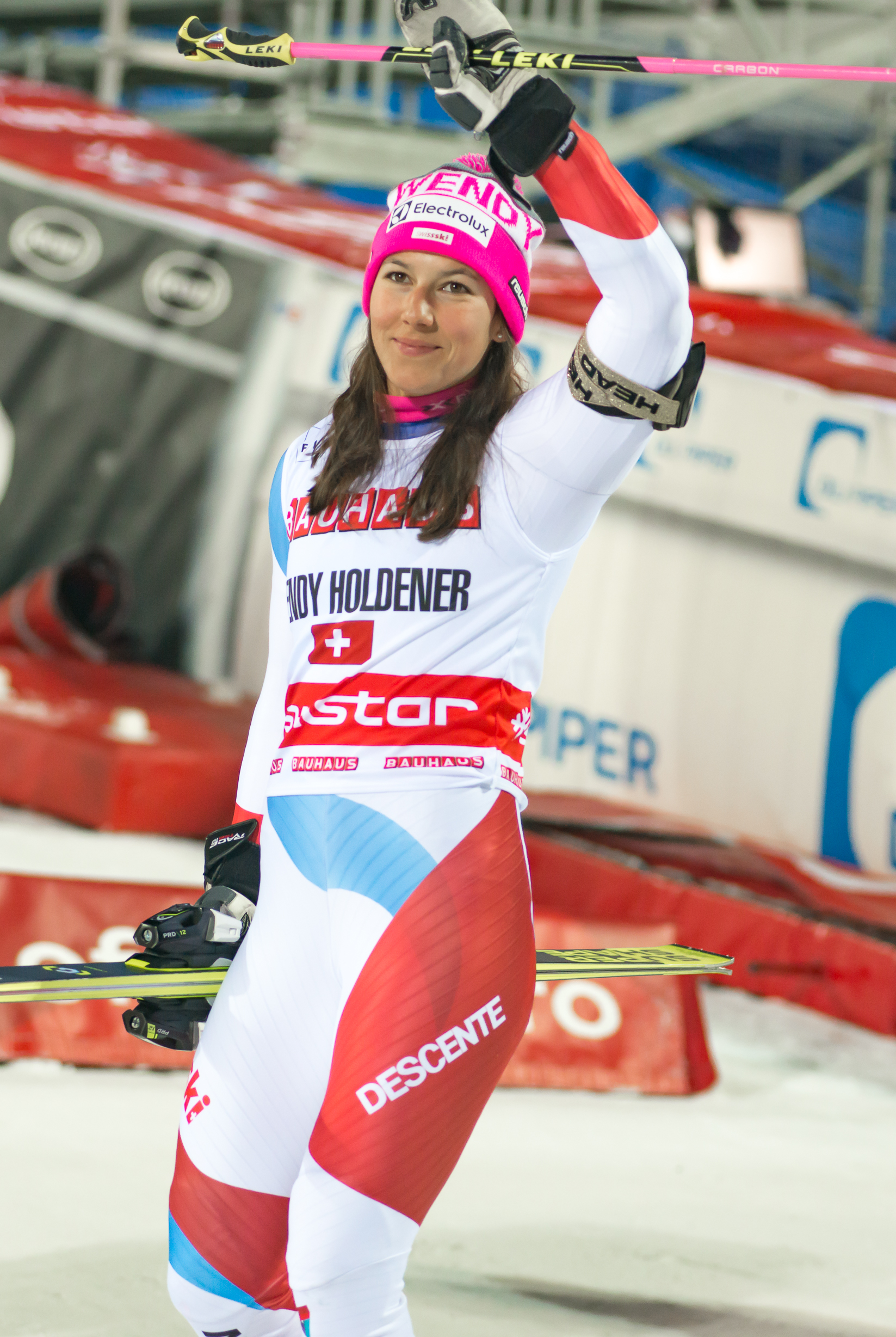 Wendy Holdener in price ceremony Photo by Roland Osbeck